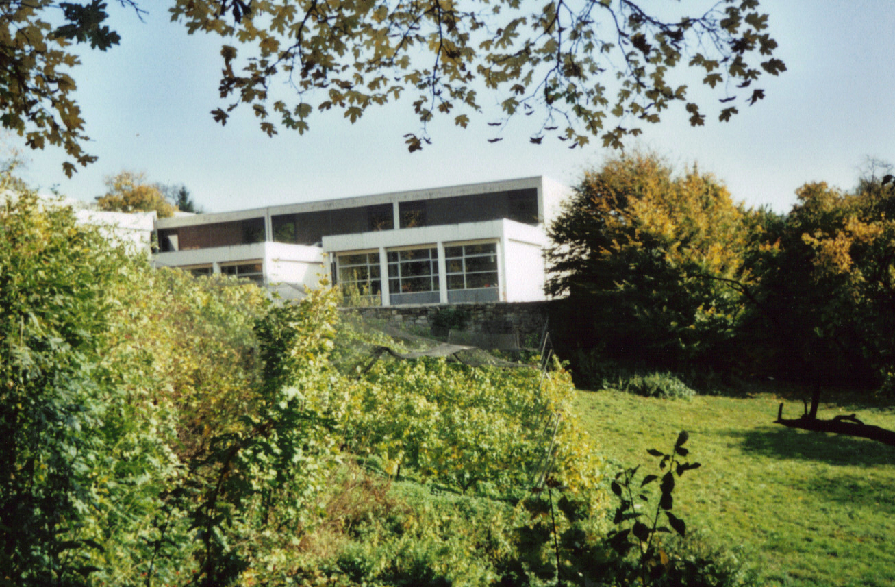 Hildesheim, vineyard of Saint Magdalena's Garden